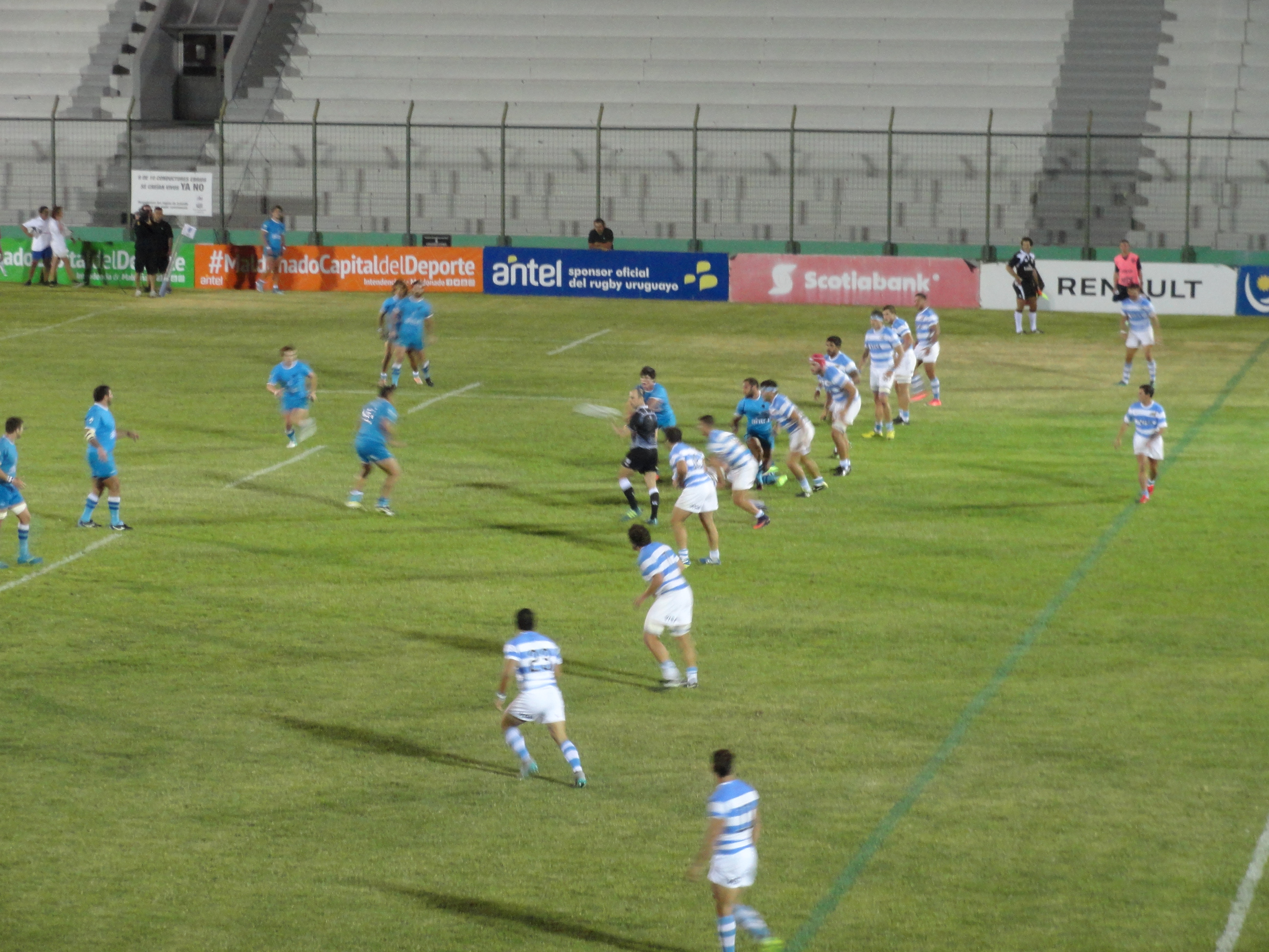 Uruguay's Teros vs Argentina XV match at the 2018 Americas Rugby Championship.